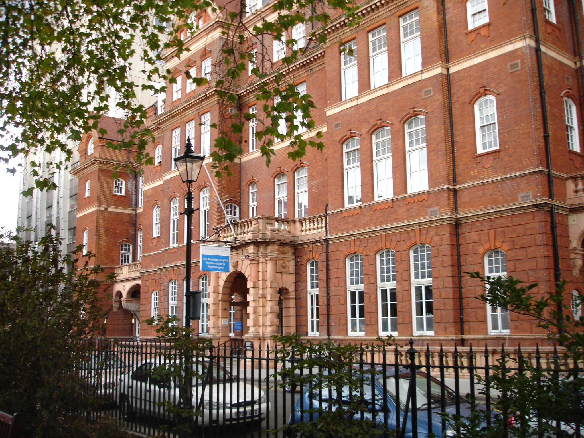 National Hospital for Neurology and Neurosurgery as seen from Queen Square, London.